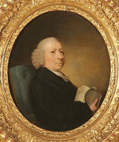 A portrait of the English clergyman poet, Richard Jago (1715-81)